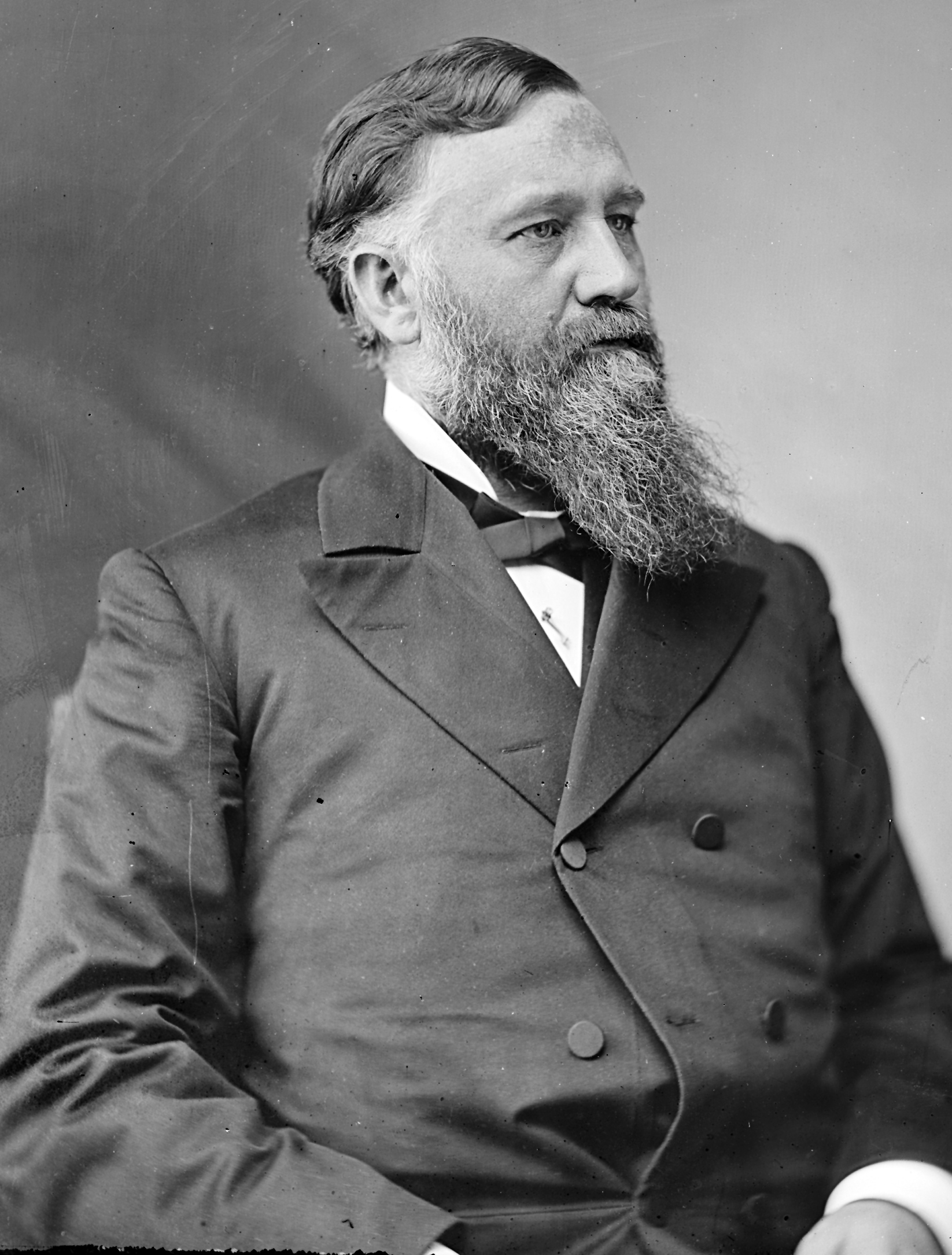 Robert M. A. Hawk, US Representative from Illinois